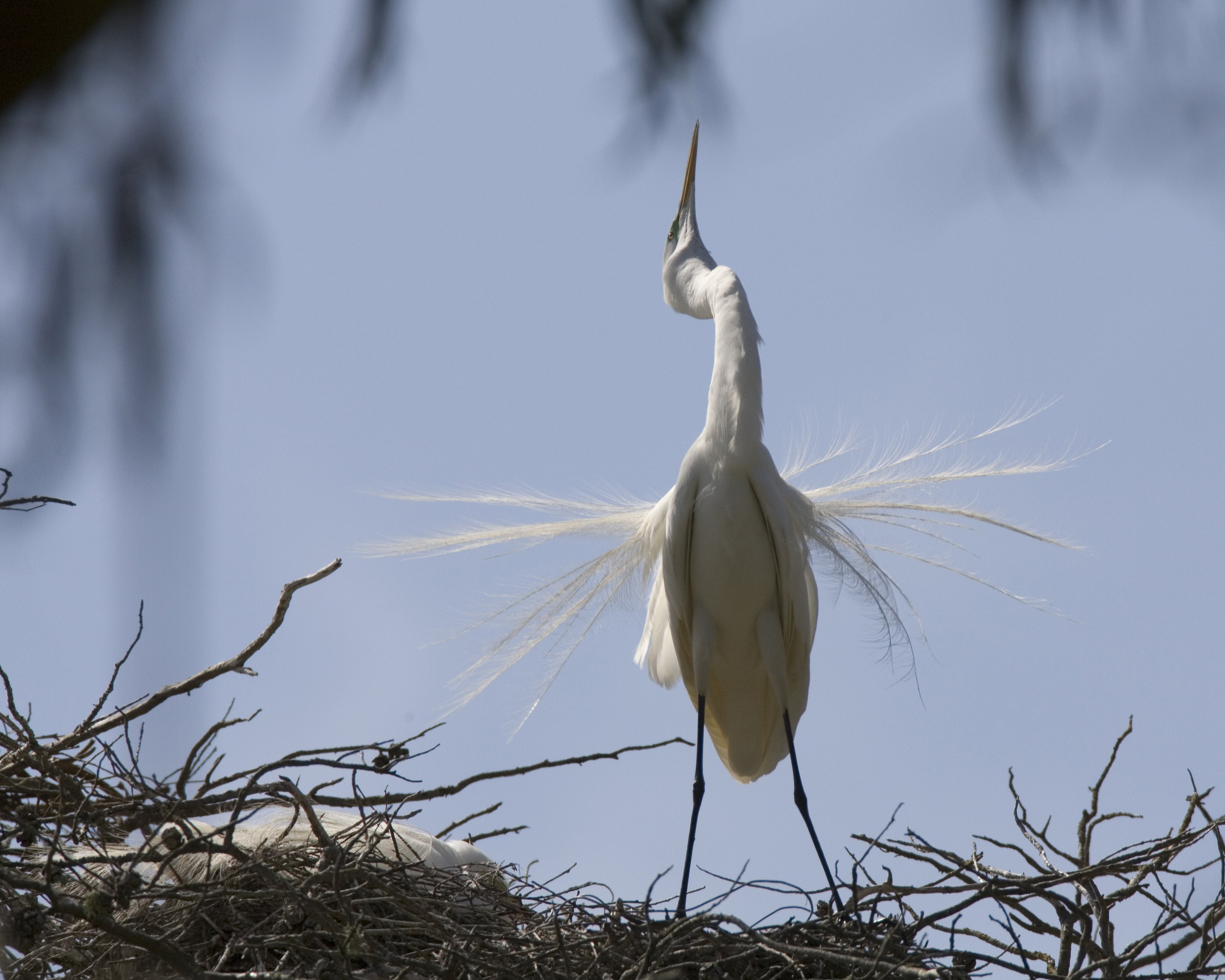 Great Egret (Casmerodius albus), at the Morro Bay, CA Heron Rookery just north of Windy Cove and the Museum of Natural History, April 8, 2007. Shot with a Canon 5D with 600mm IS lens w/ 1.4X II TE, shot in RAW on tripod, sharpened in Photoshop CS2.